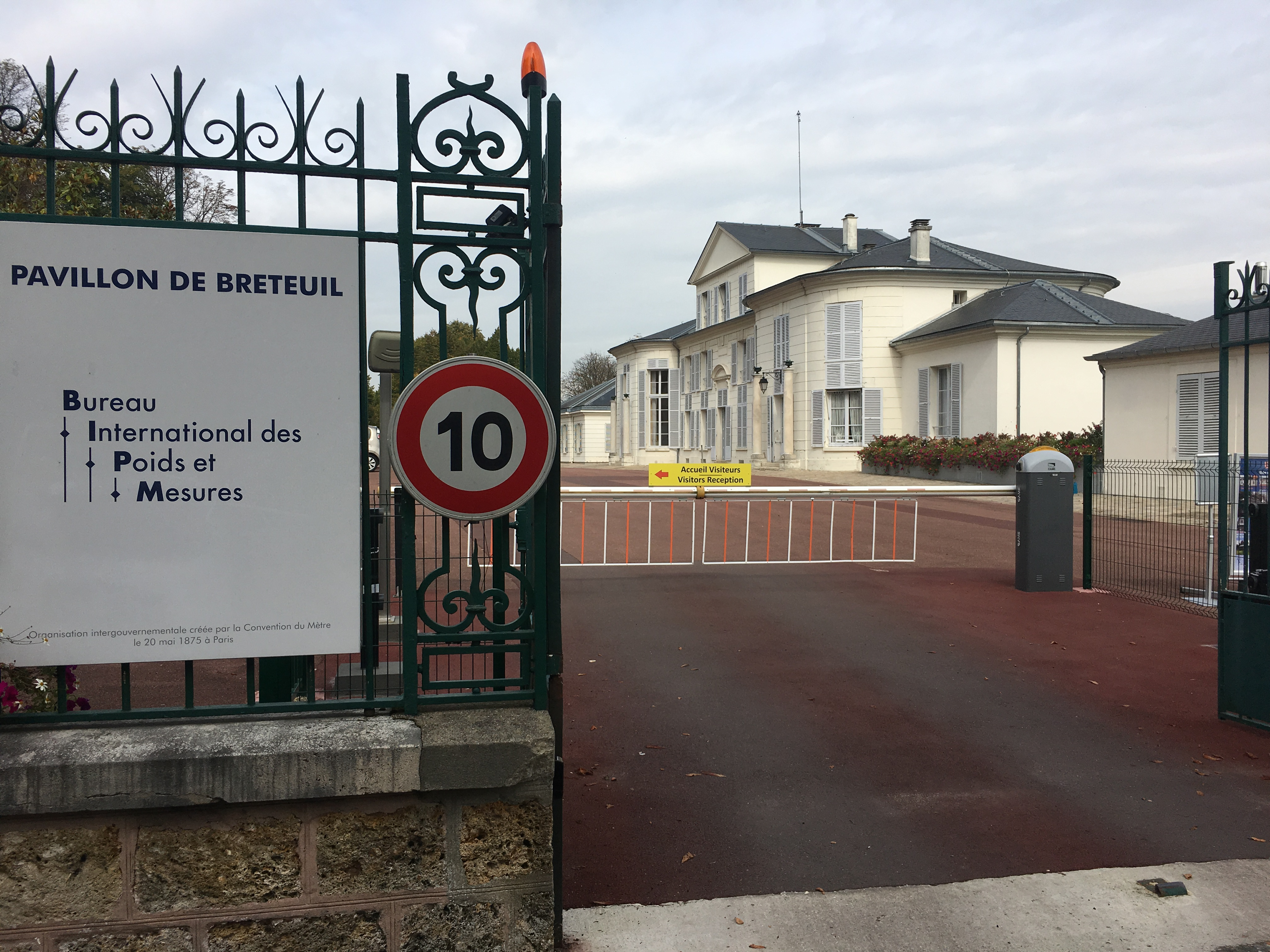 The Pavillon de Breteuil, Saint-Cloud (postal address Sèvres), France, seat of the International Bureau for Weights and Measures.